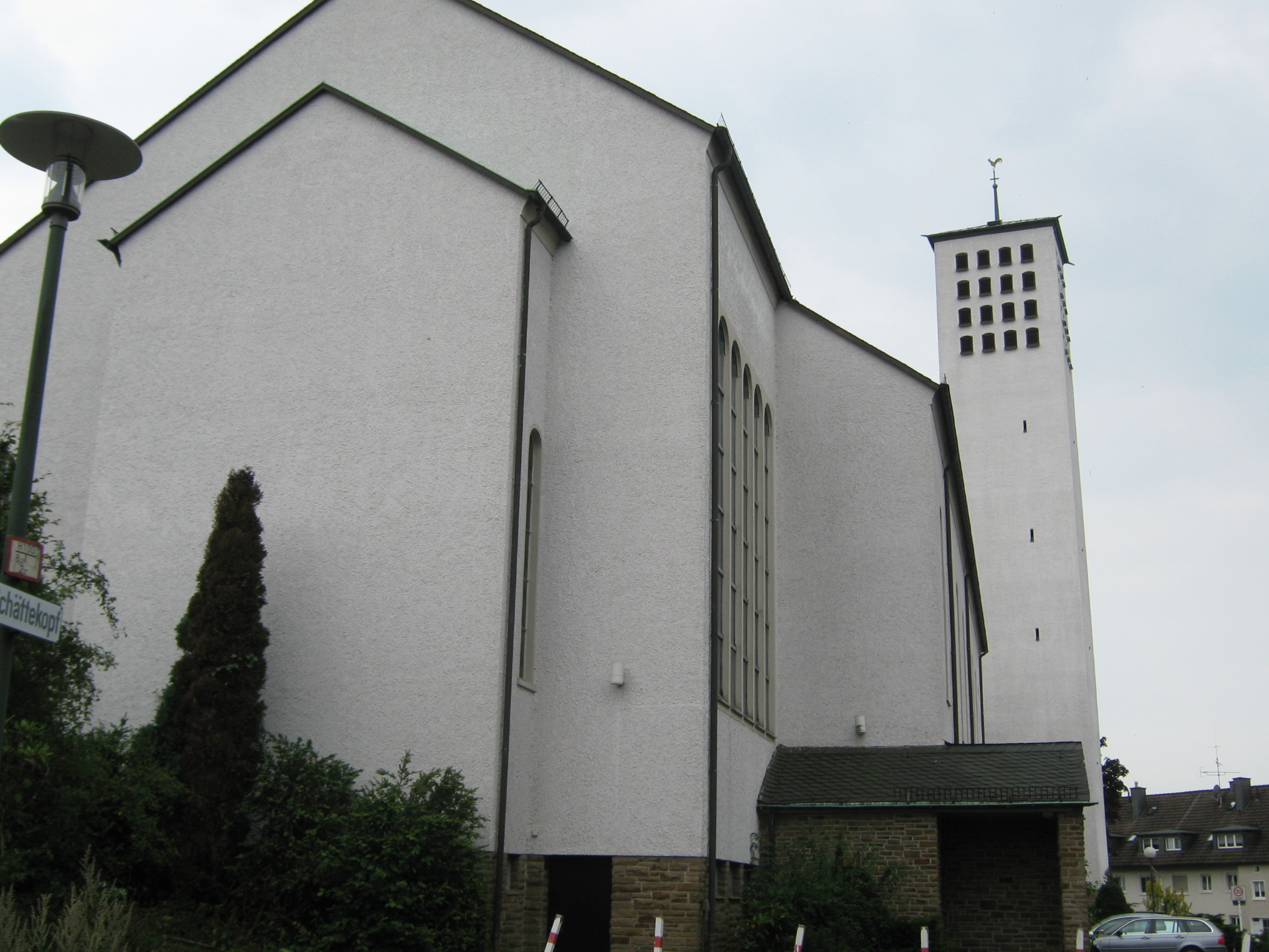 The Roman Catholic Maria Königin (Queen Mary) church and bell tower in Lüdenscheid, North Rhine-Westphalia, Germany, photographed to the west.